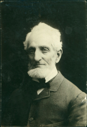 Photograph of John Formby from c1902.